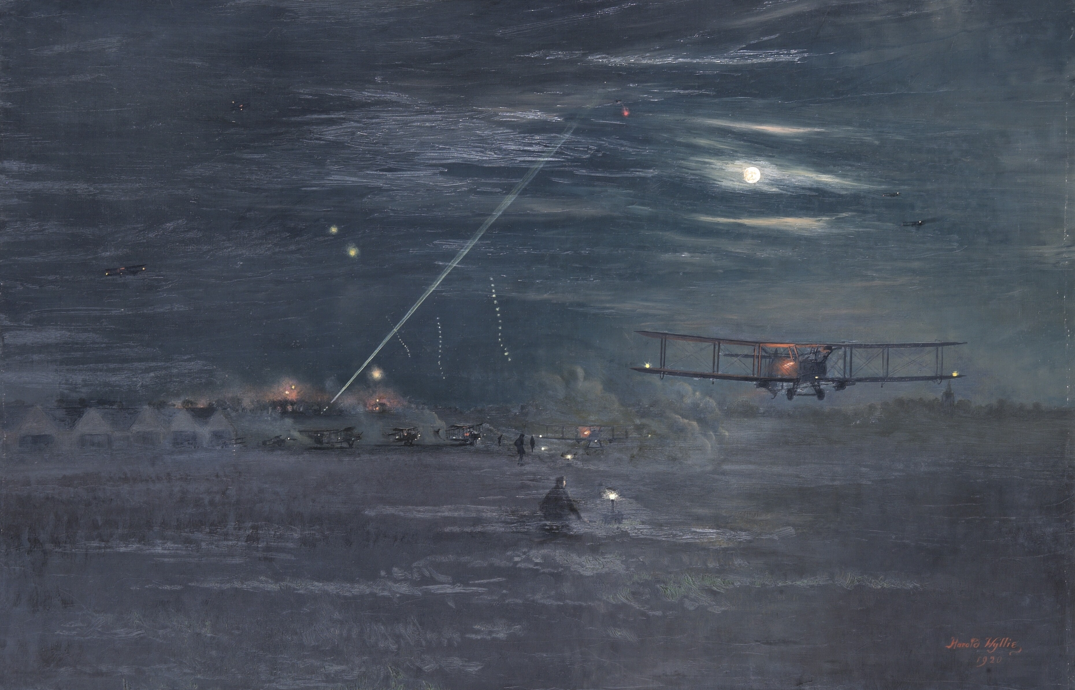 Night Bombers Getting Off from Trezennes Aerodrome, 1917 image: A night scene at an aerodrome in northern France. An FE2b biplane night bomber is taking off on the right with a single serviceman crouching on the ground in the centre foreground. In the background a line of bell tents are visible and a single. Aircraft is of RFC 100 Squadron, the world's first squadron formed specifically for night bombing (Greg Harrison, 100 Squadron Association Historian) searchlight beam reaches up towards the full moon in the sky.